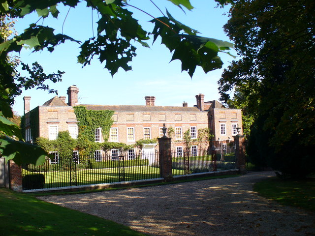 Manor House, Chipperfield Sumptuous red brick Georgian manor on The Common, Chipperfield.